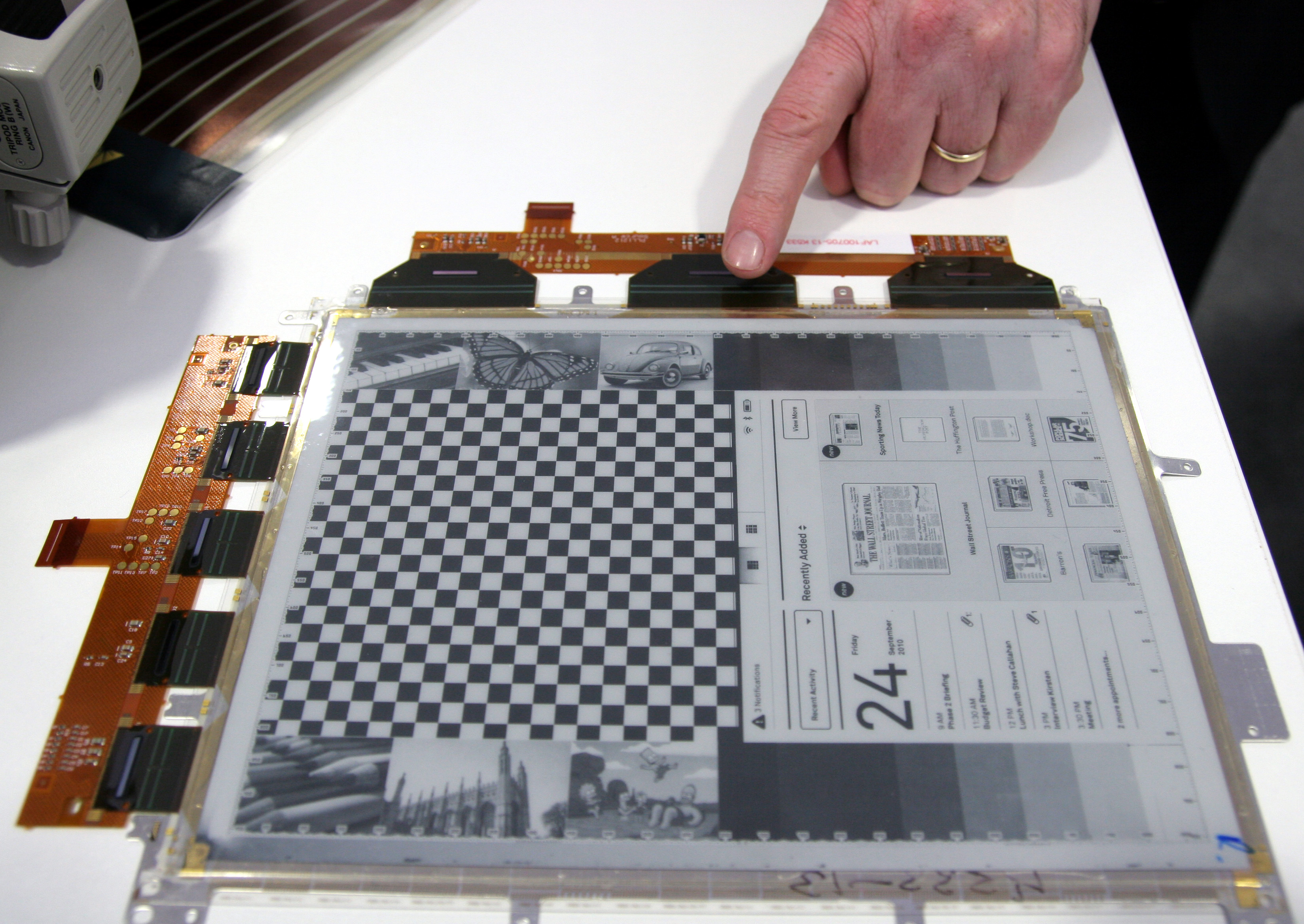 Prototype of high resolution electronic paper, shown during the opening ceremony of Merck's Material Research Center in Darmstadt (Germany). The content written into the display stays stable even after weeks.